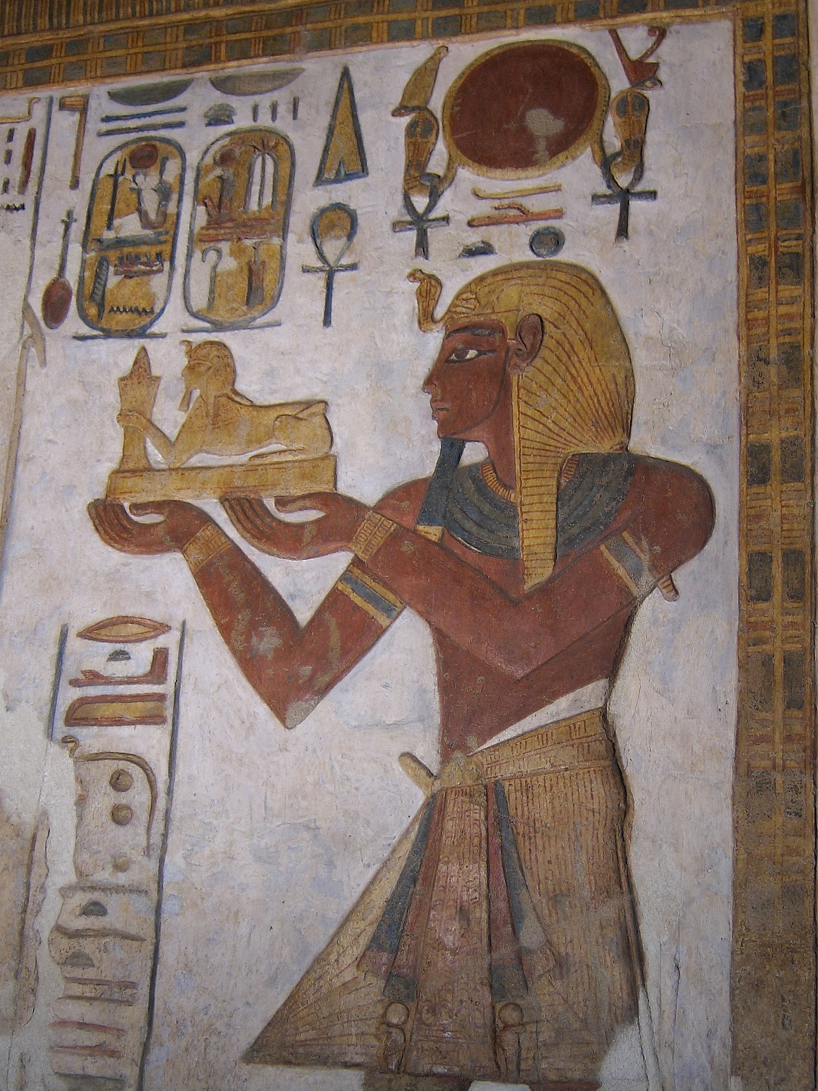 Relief from the Sanctuary of Khonsu Temple depicting Rameses III (detail)